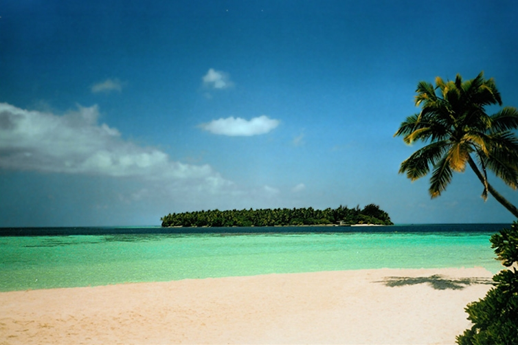 Digofinolu, South Malè Atoll - Maldives, 1998